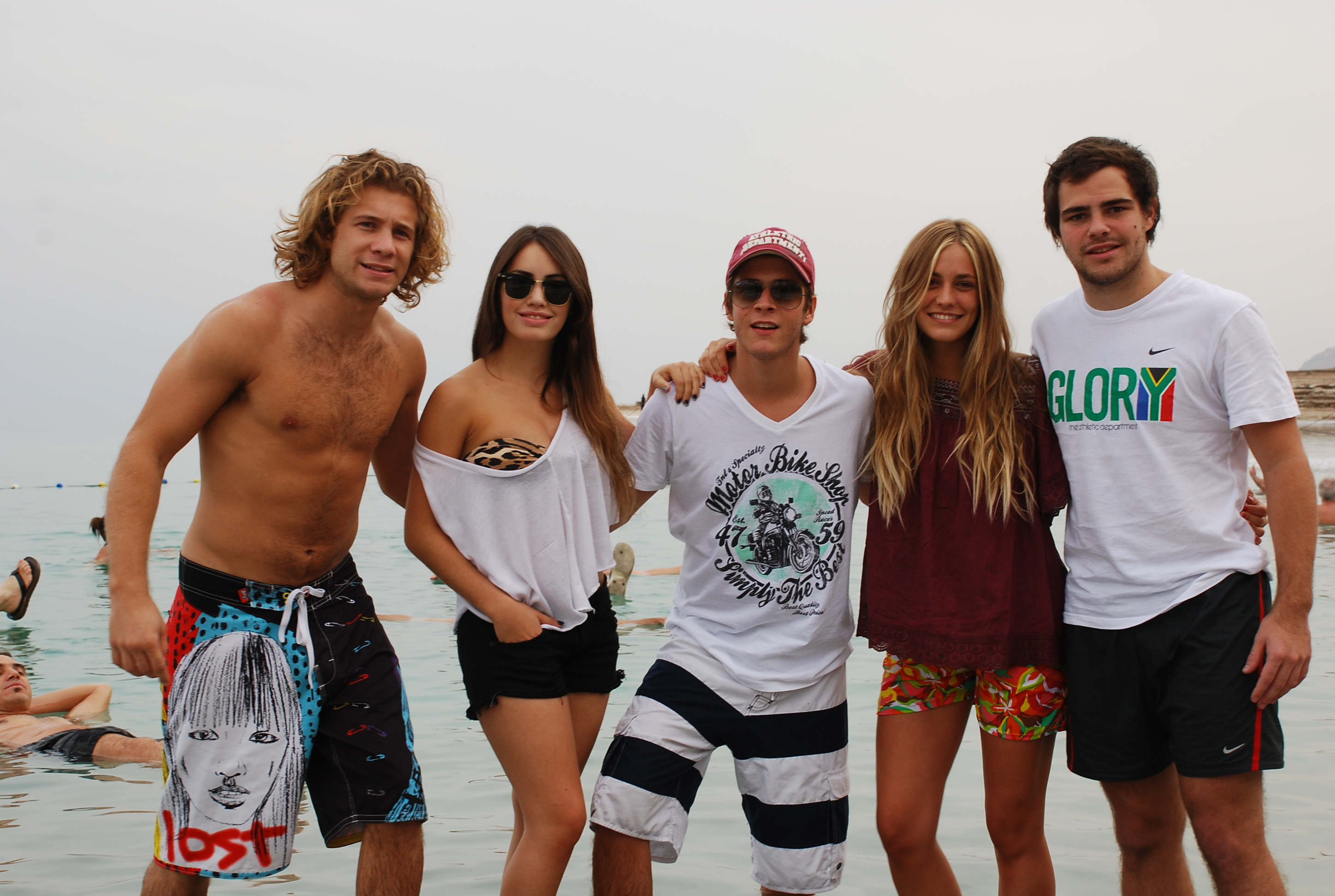 People of Israel